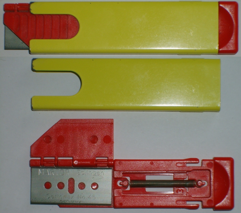 security knife